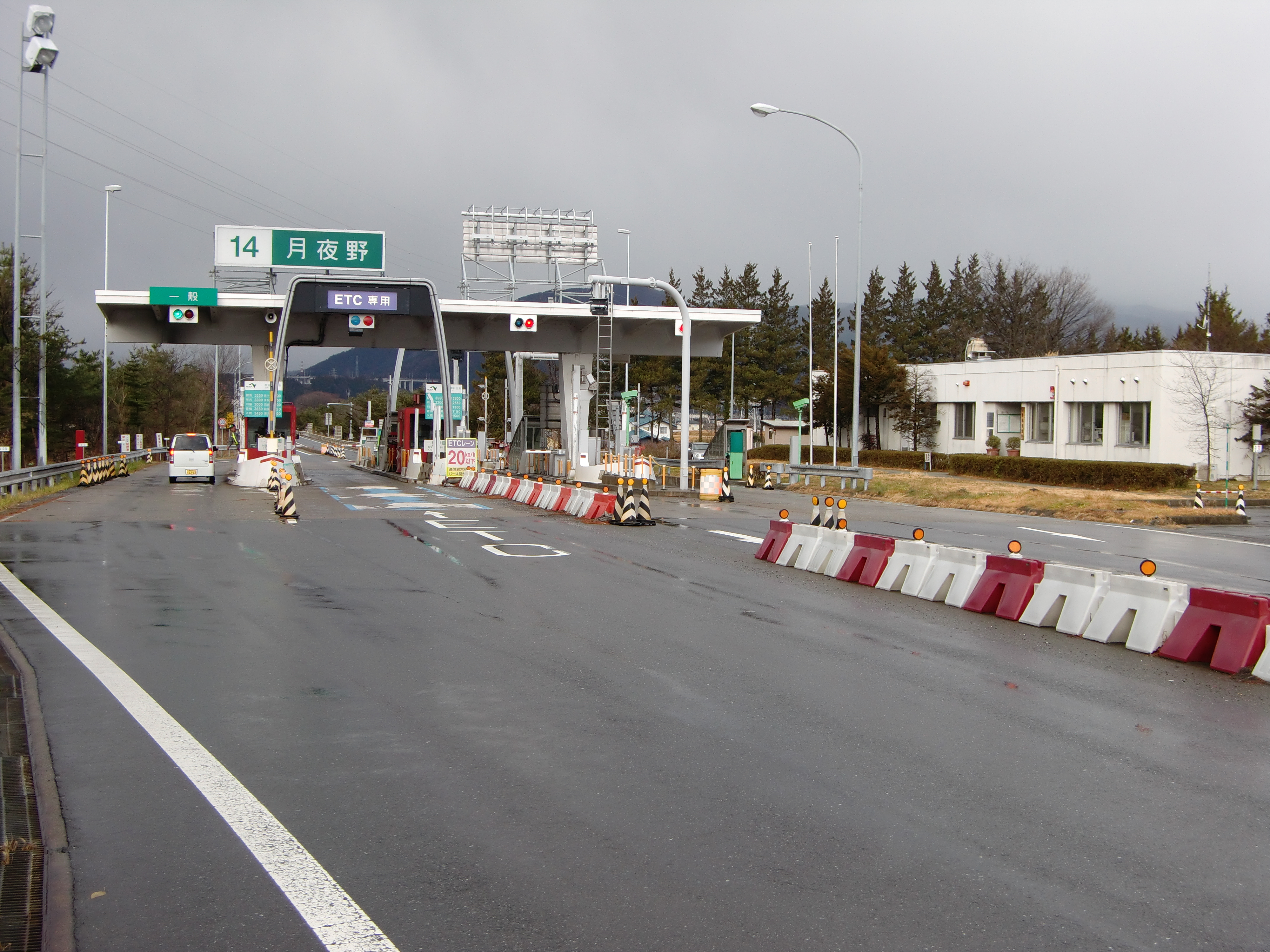 Tsukiyono Inter Cange